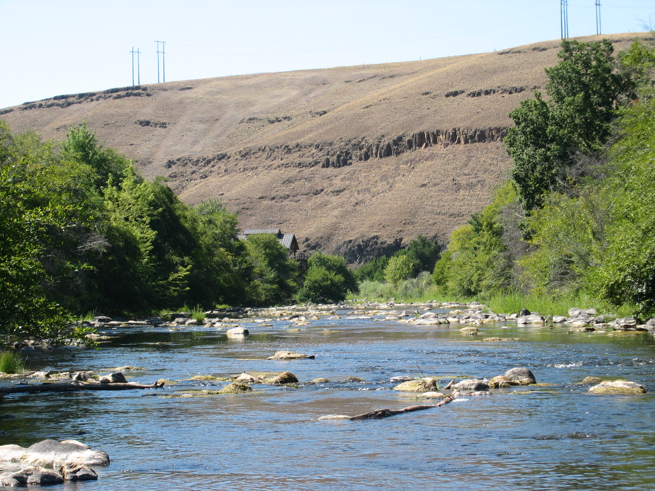 Umatilla River at the East end of River Parkway, shortly before the Union Pacific Picnic Shelter in Pendleton, Oregon.